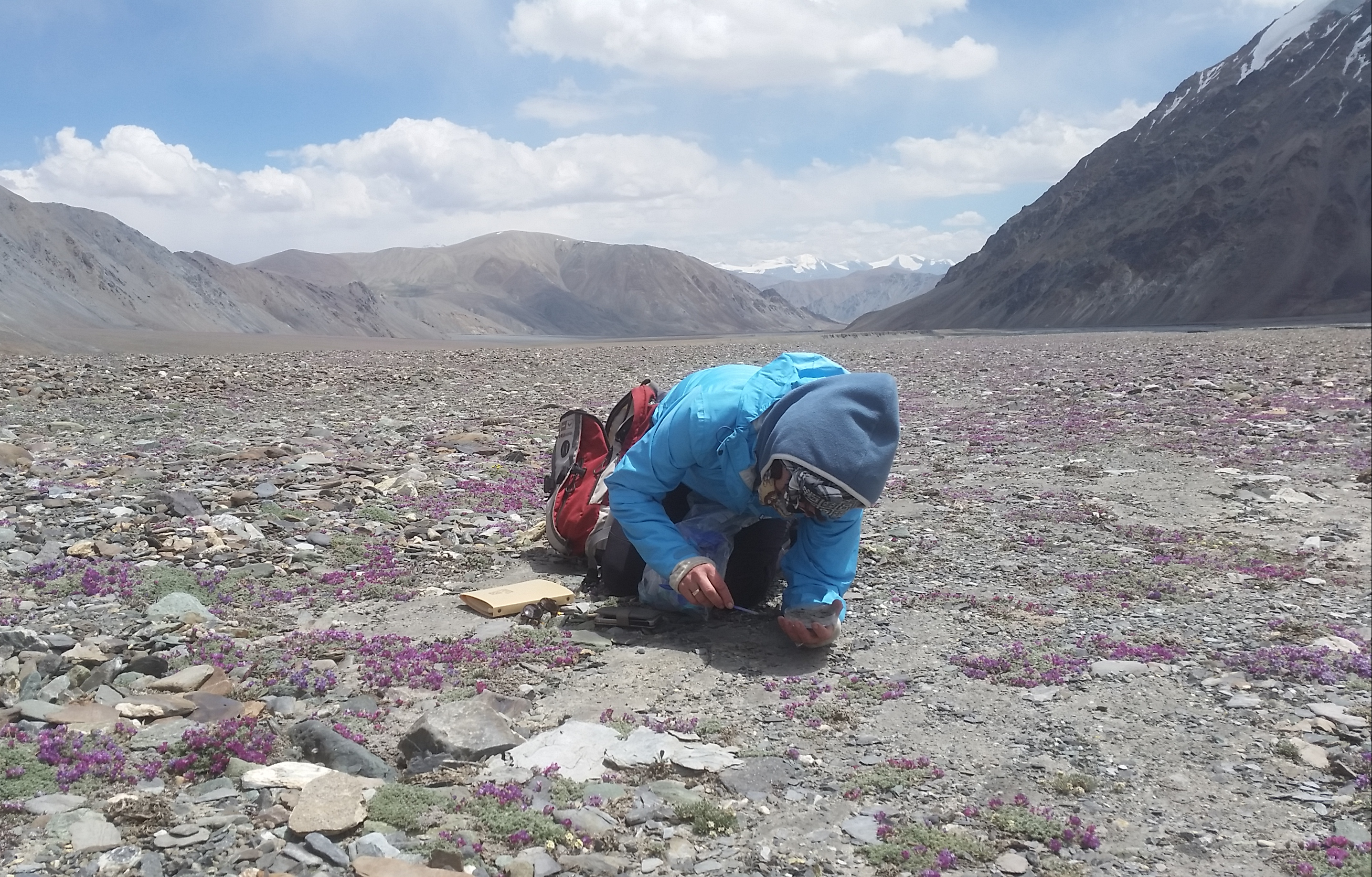 Quest for blue-green fleece. M.Sc. Natalia Khomutovska under the watchful eyes of Dr.Sci. Iwona Jasser is looking for cyanobacteria on the roof of the world. Flowery meadows on the way to the glacier. Environmental conditions at the foot of the glacier are very harsh for living organisms. Still one can meet there organisms adapted to such conditions. But are cyanobacteria among them?